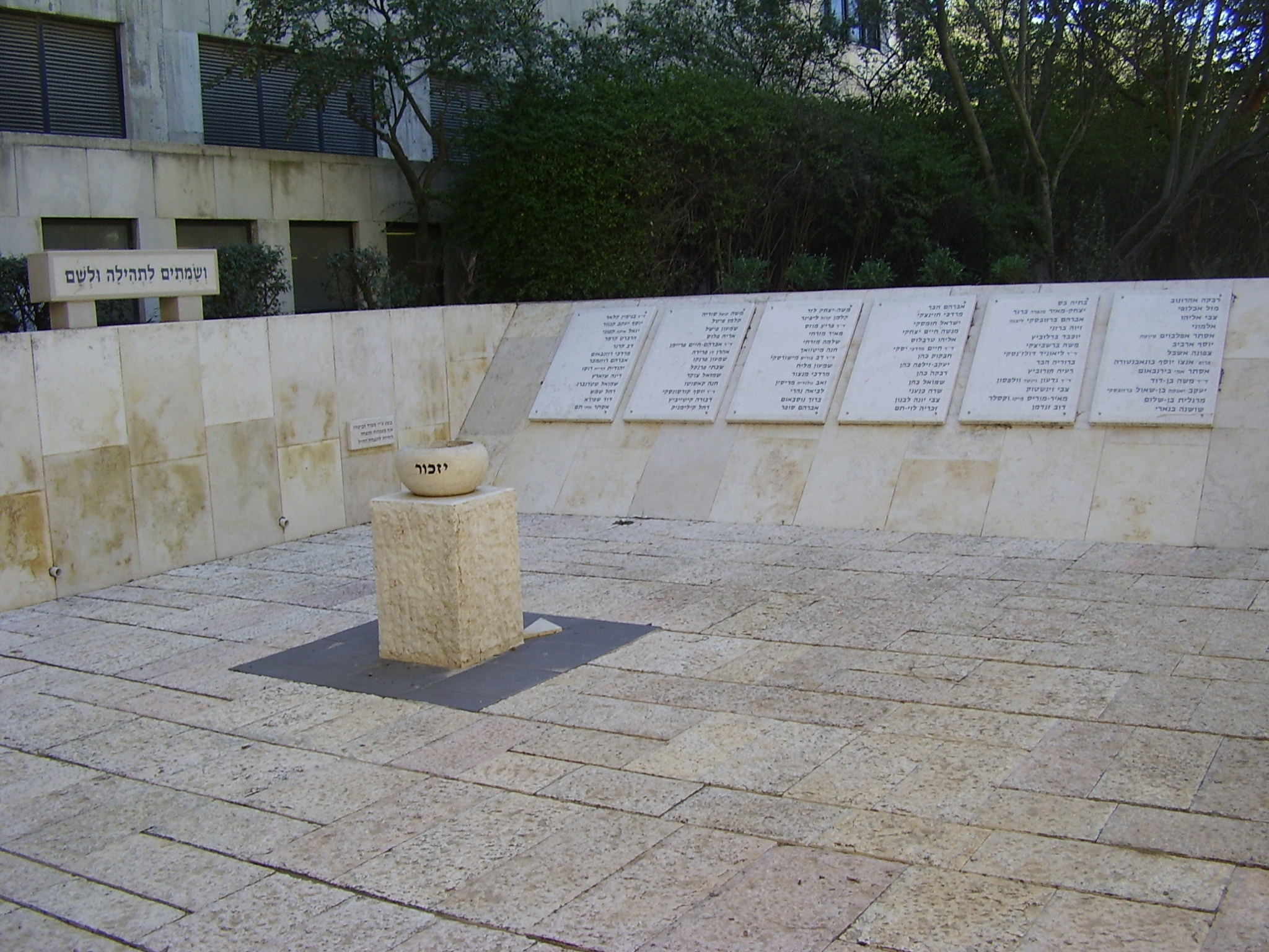 hadassah convoy memorial (1948) in hadassah mount scopus hospital